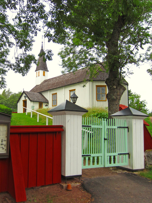 St Andreas Church in Lumparland, Åland, Finland